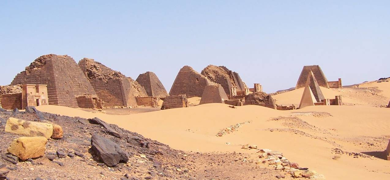 Meroe Pyramids in Sudan at 30th september 2005